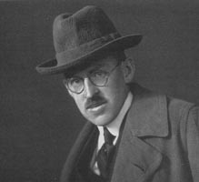 Ralph Edward Flanders ca. 1910, photo courtesy of Nancy-Jean Seigel.